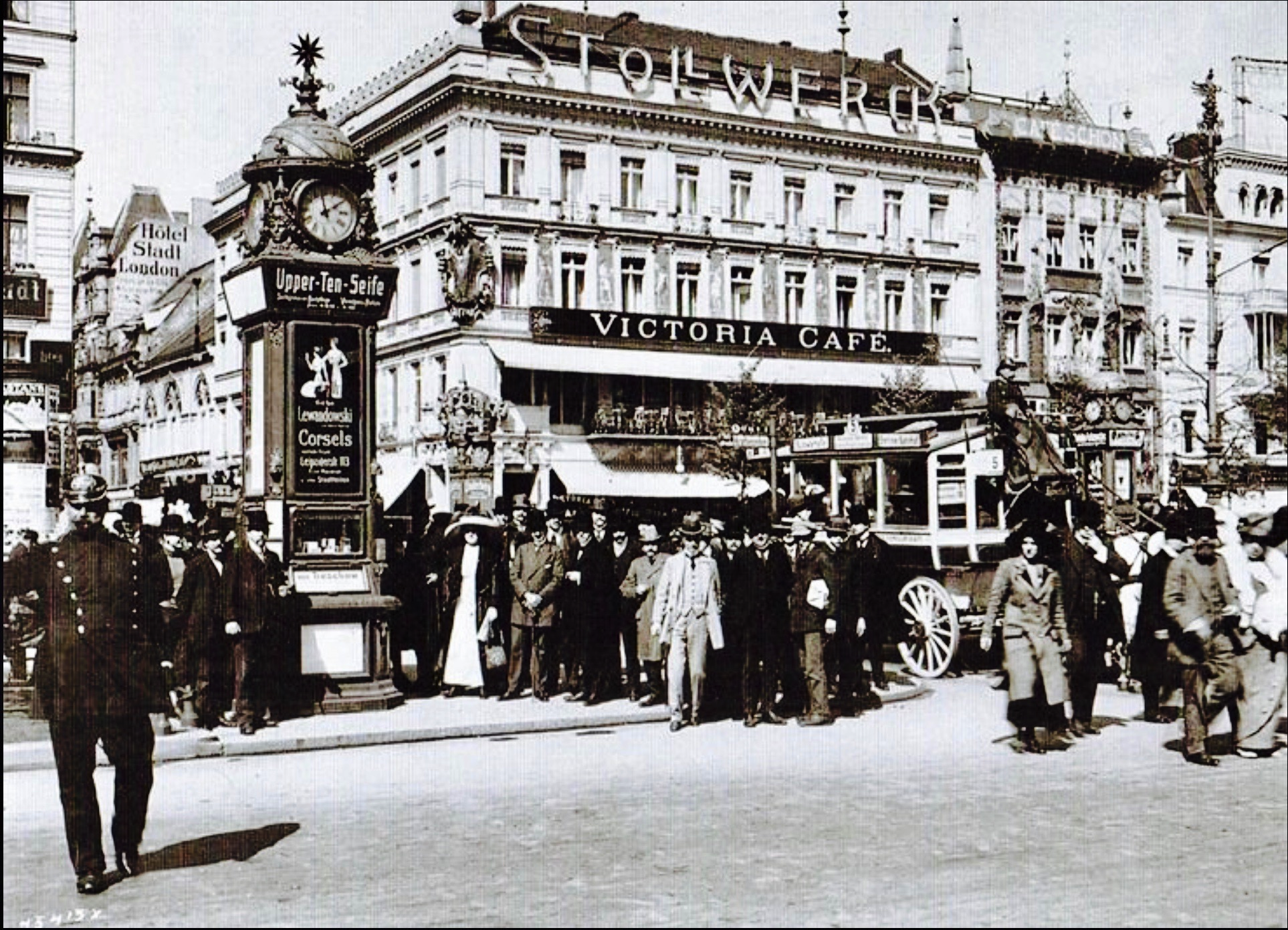 Street setting Unter den Linden / Friedrichstrasse in Berlin, Germany by Zander & Labisch